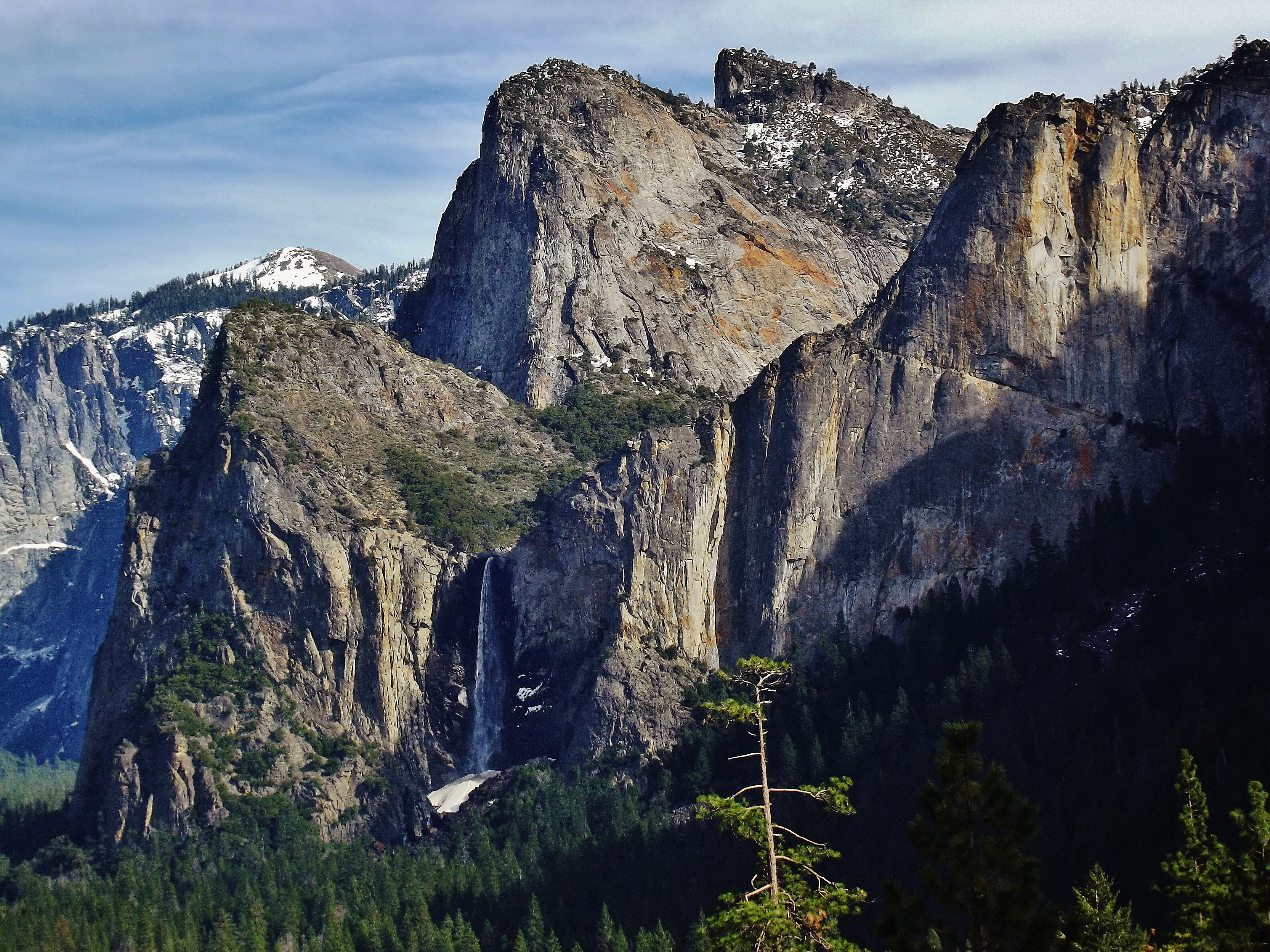 Bridalveil Fall and raised U shaped valley